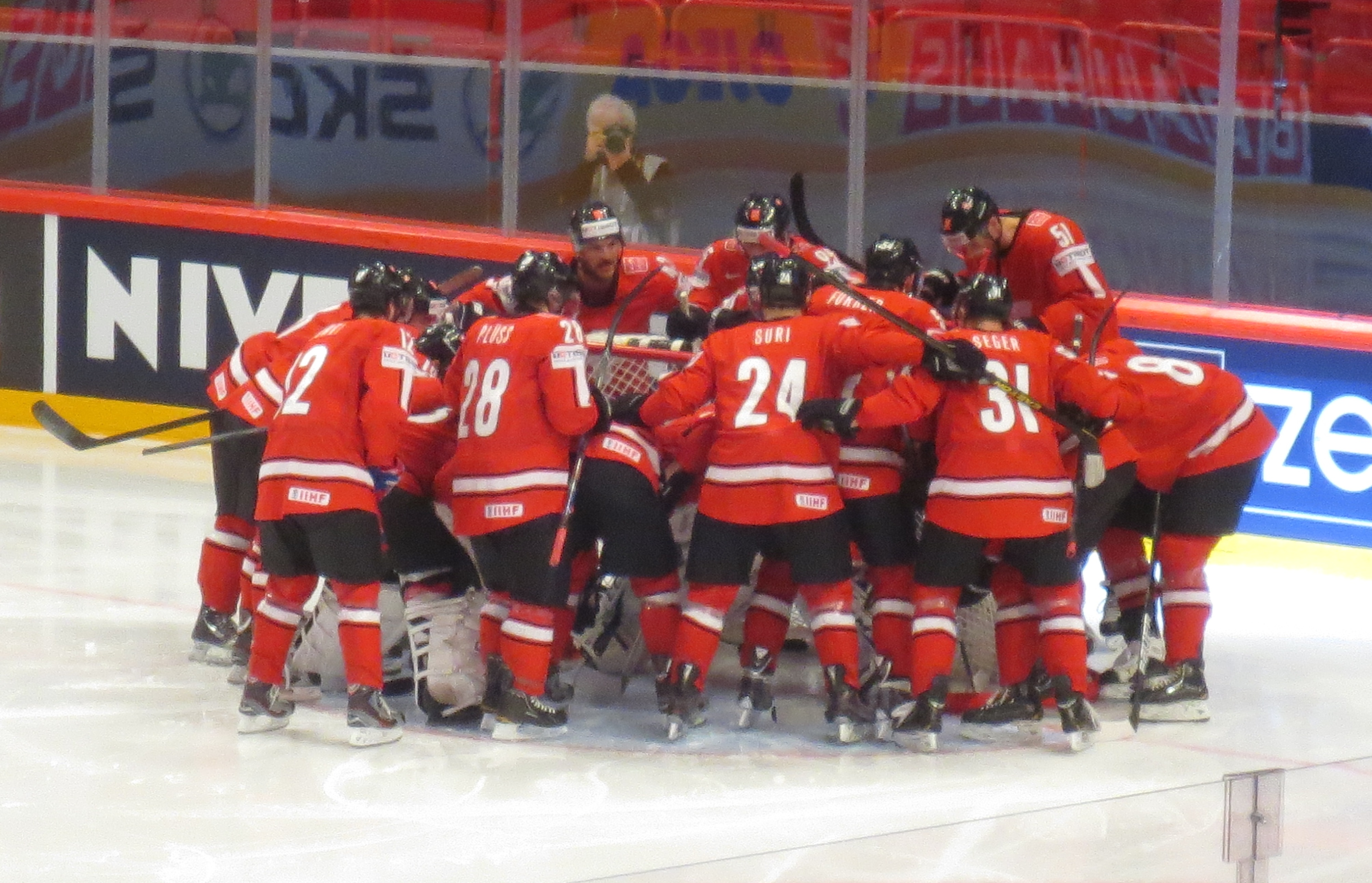 The swiss national hockey team before the 2013 World Championship semi-final versus the United States.